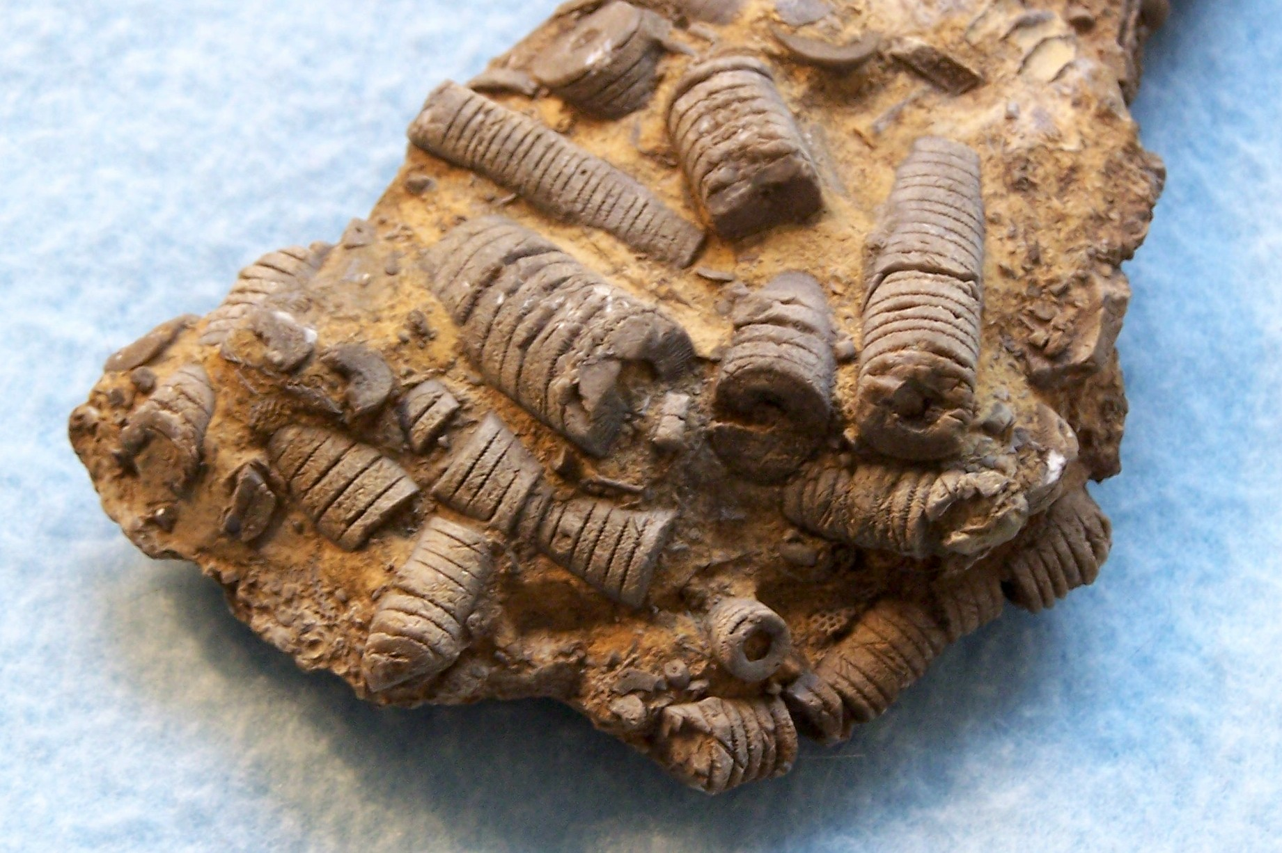 Fossil crinoid stems from Arkansas.